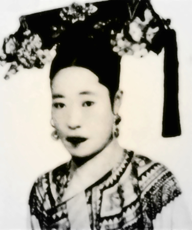 Longyu, Empress of China